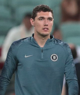 Danish footballer Andreas Christensen on 28 May 2019 in Baku ahead of the 2019 Europa League final.